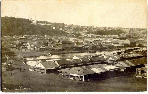 Market Place, Barnaul